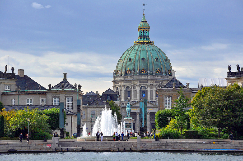 Amalienborg and the Marble Church seen with the Amalie Garden in the foreground